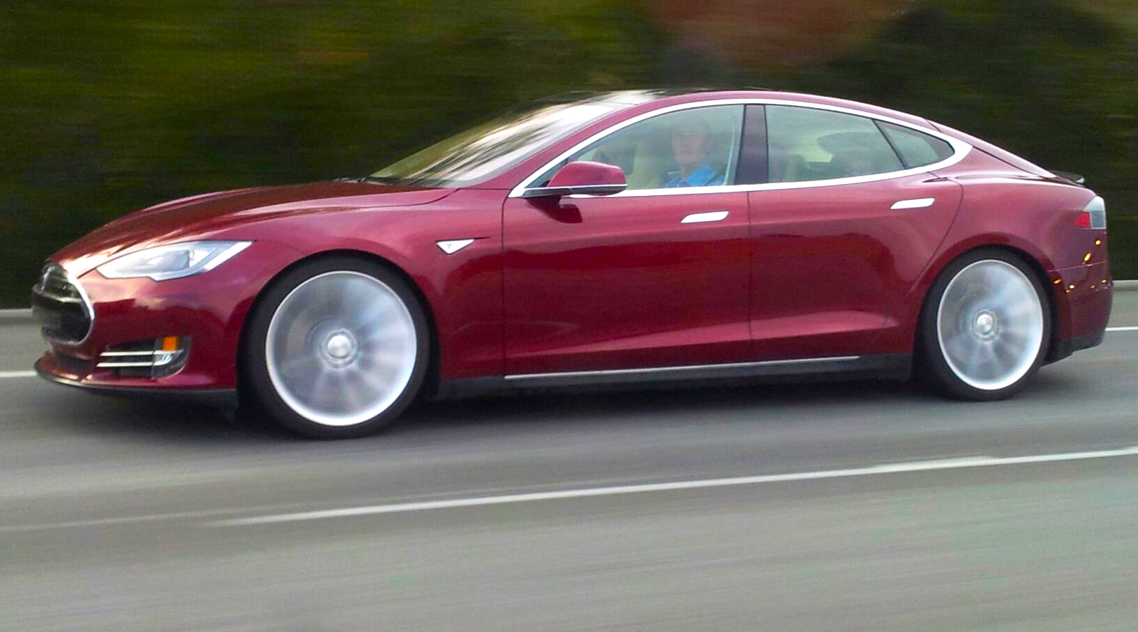 Tesla Model S on Hwy 280 California driven by Steve Jurvetson, who received the first production vehicle